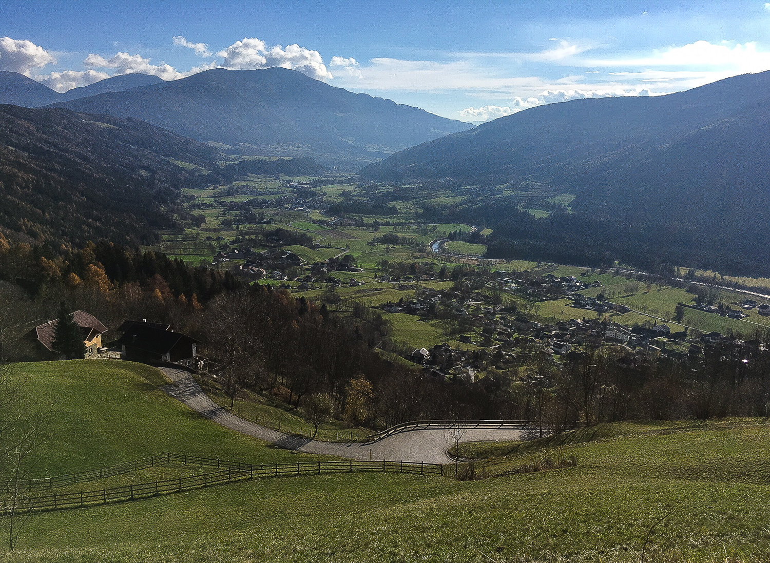 Panoramia from mountain Maltaberg to the south, municipality Gmünd, Kärnten, district Spittal an der Drau, Carinthia, Austria, European Union